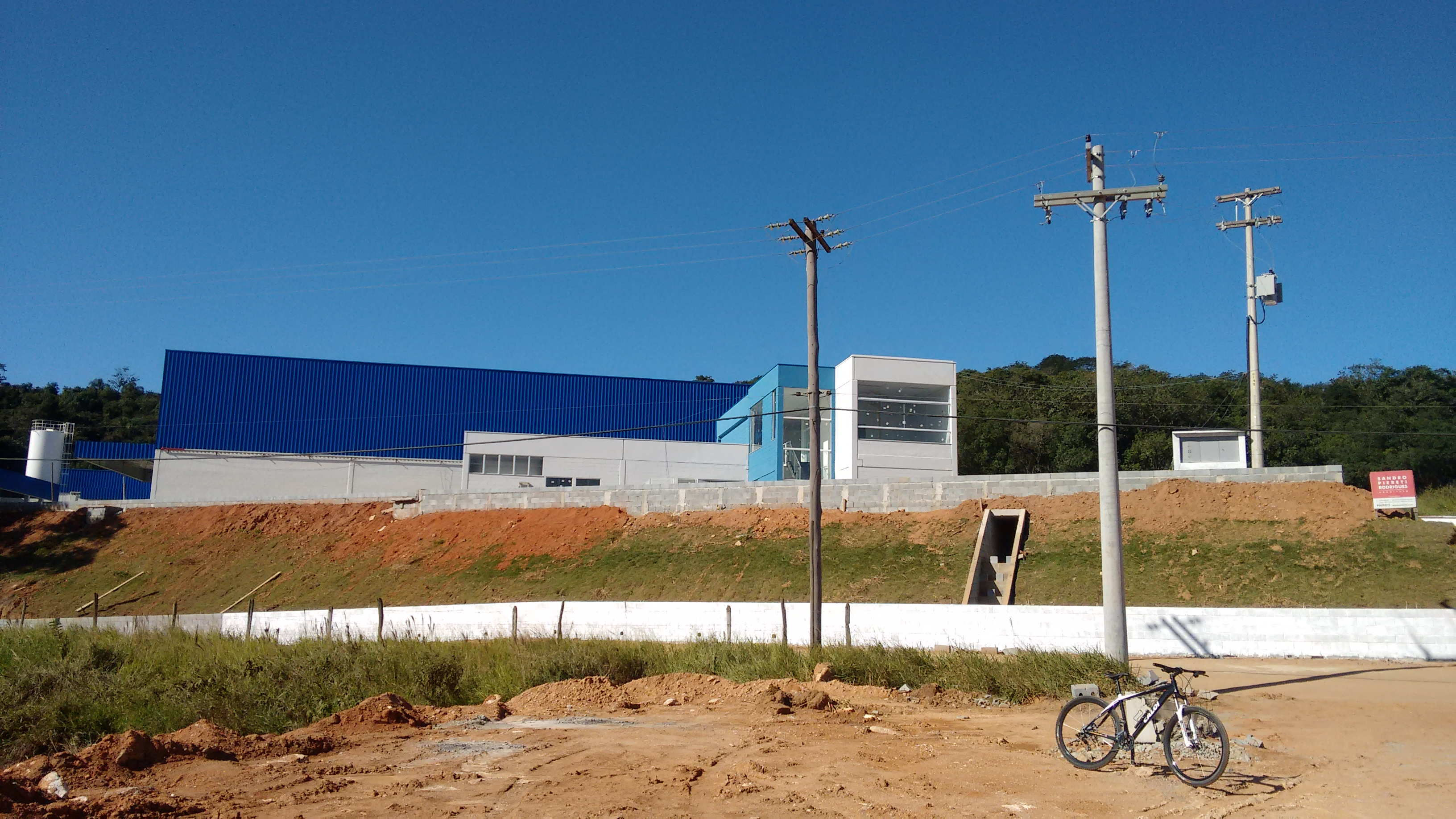 Growth of Serra Negra neighborhood and poor infrastructure.